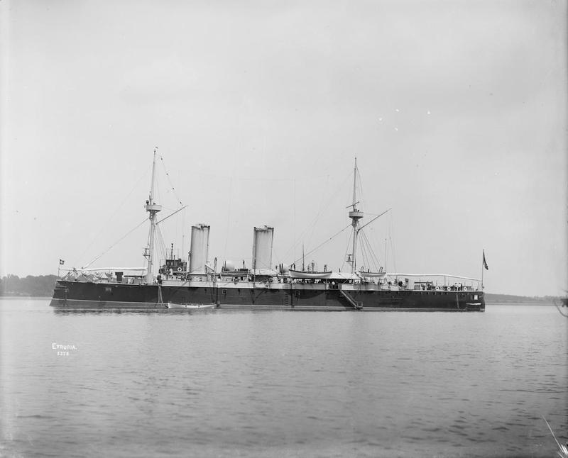 Photograph of Italian cruiser Etruria.